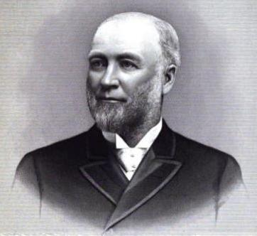 James R. McDonald. In the late 19th century bought 10,000 acres in Mason County, Washington (1883) and founded the Seattle Lumber Company. Moved to Seattle (1884), was president and one of the founders of the Seattle, Lake Shore and Eastern Railway.